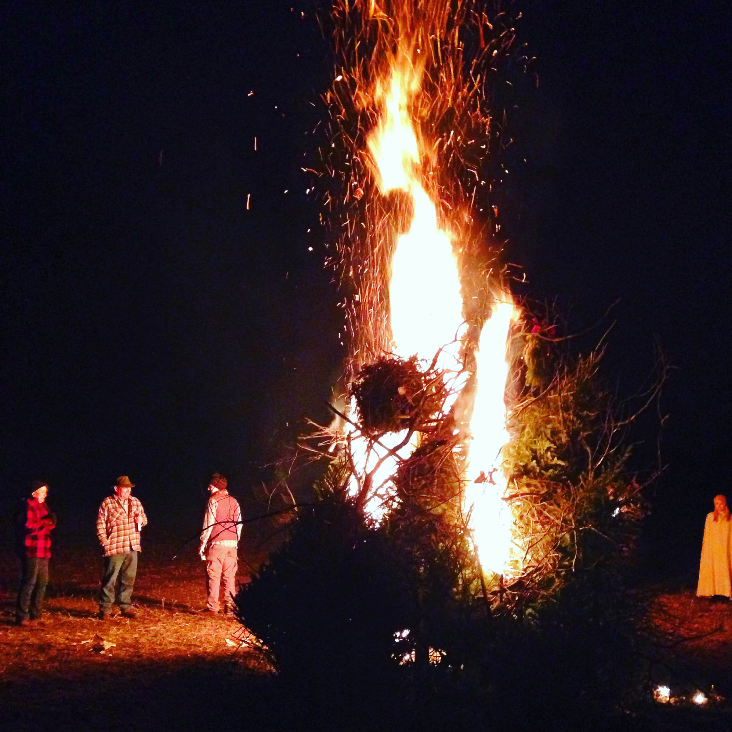 Friends celebrate around bonfire in central Pennsylvania, comprised of about a dozen discarded christmas trees